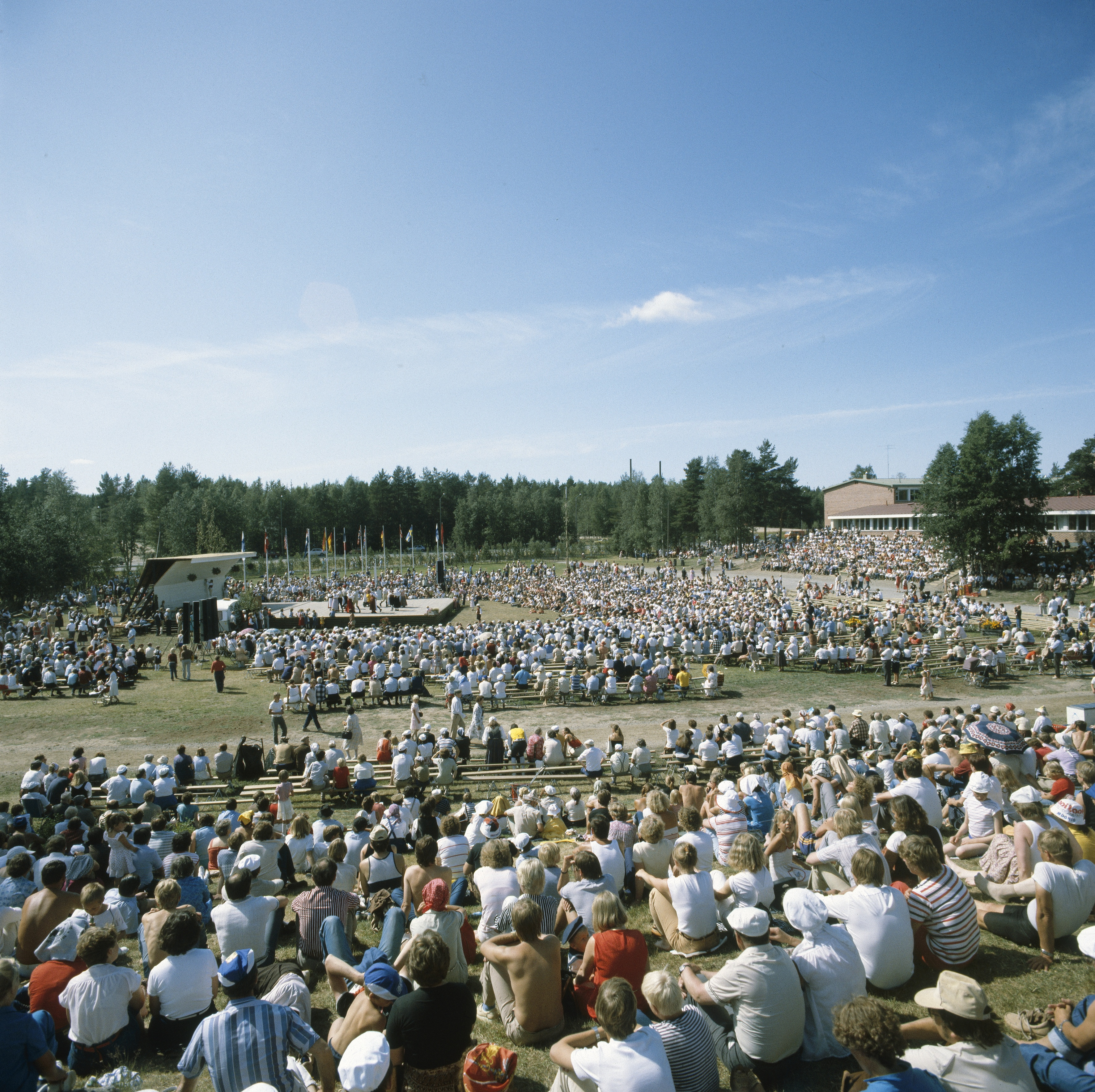 Kaustinen Folk Music Festival in the late 1970s or the early 1980s.